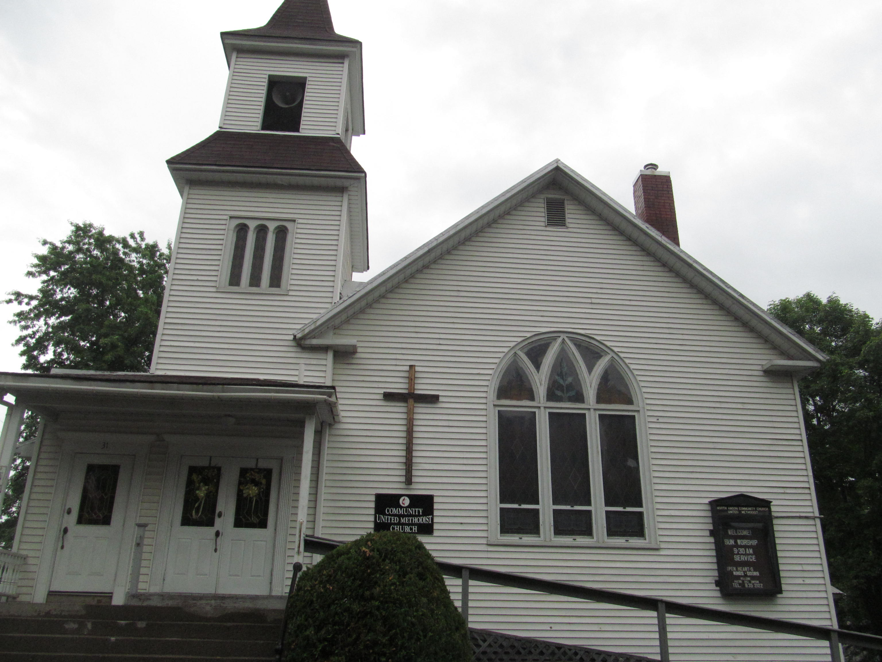 North Anson, Maine